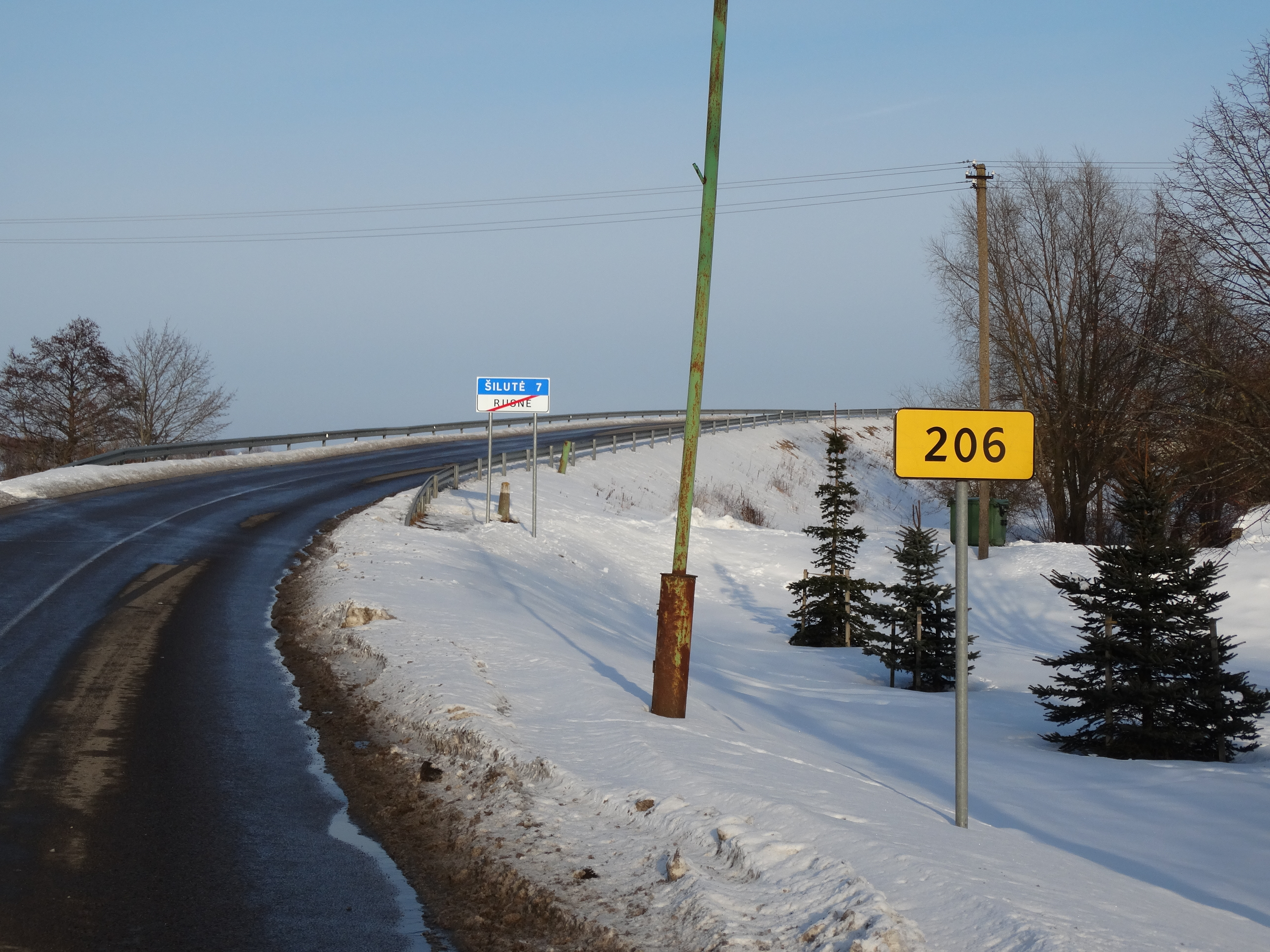 Regional road 206, Rusnė, Šilutė district, Lithuania